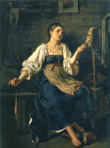 Firs Sergeyevich Zhuravlev (1836-1901) Spinner